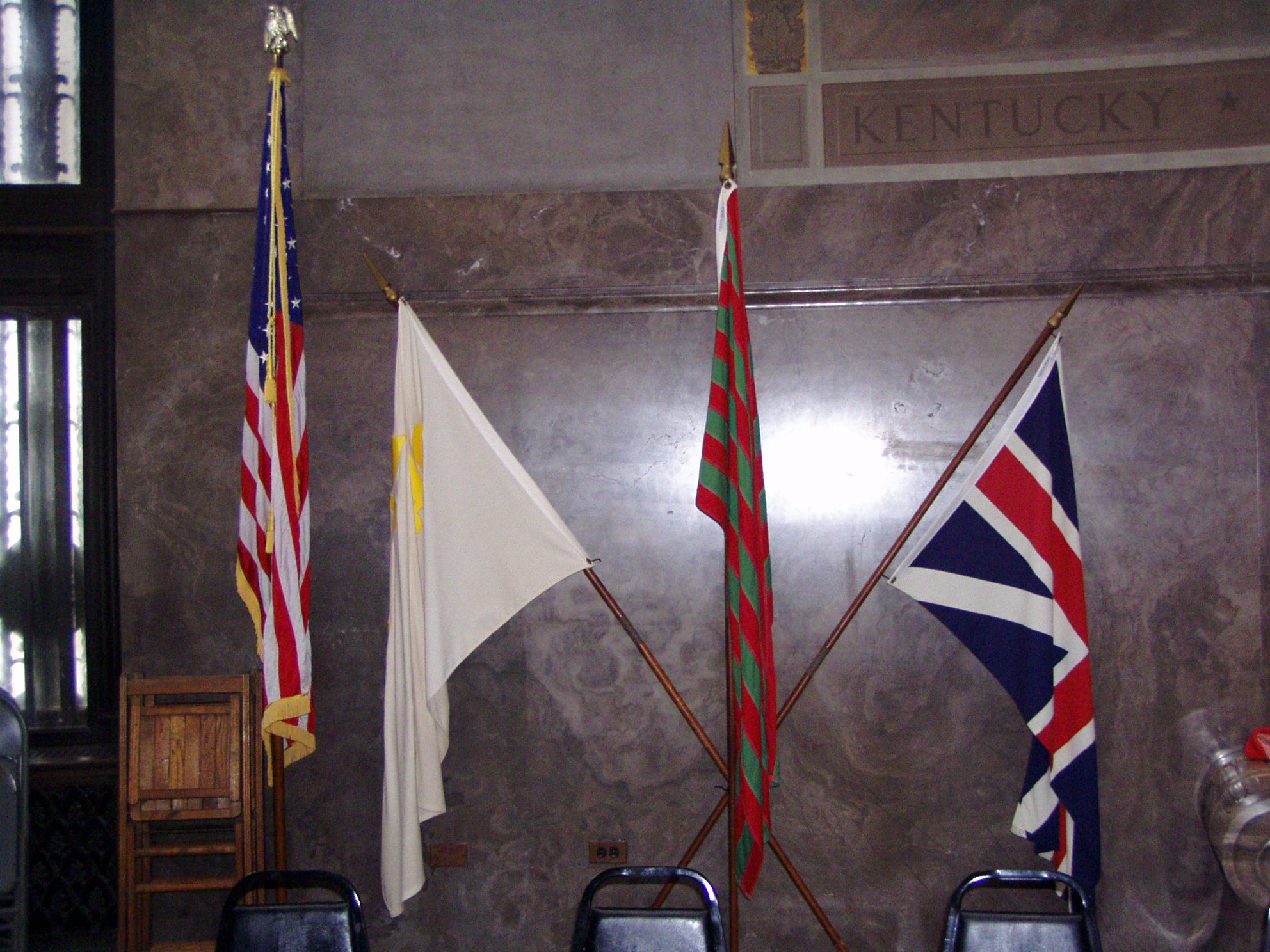 Flags inside the George Rogers Clark National Historical Park, in Vicennes, Knox County, Indiana